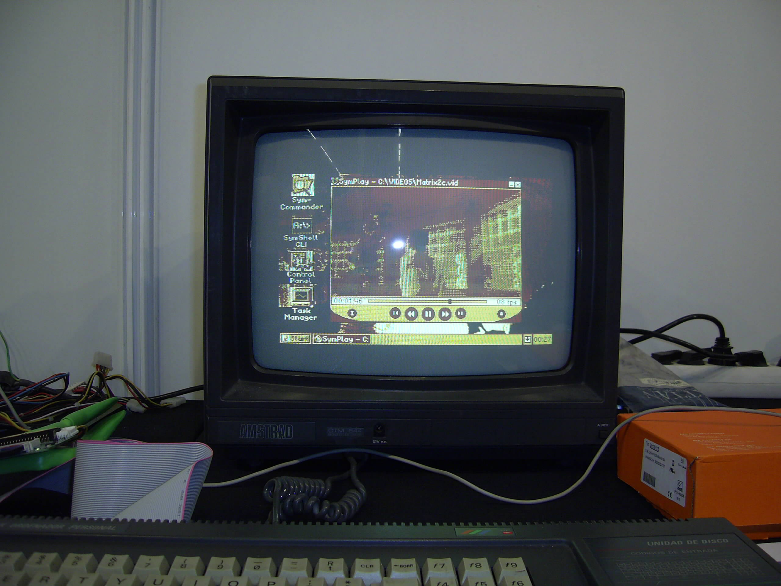 Amstrad CPC 6128 playing a Matrix Video from a CompactaFlash at SYMBiFACE II.